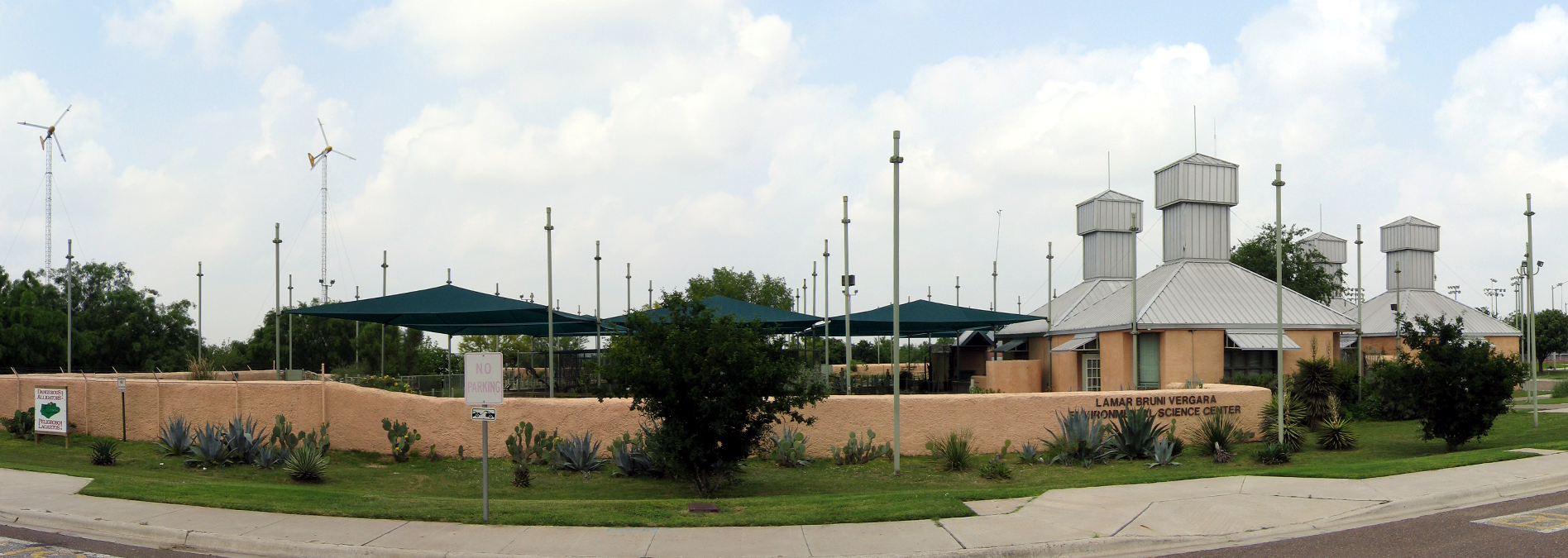 Laredo Demonstration Farm site designed and build by Pliny Fisk, now the Lamar Bruni Vergara Environmental Science Center in Laredo, Texas